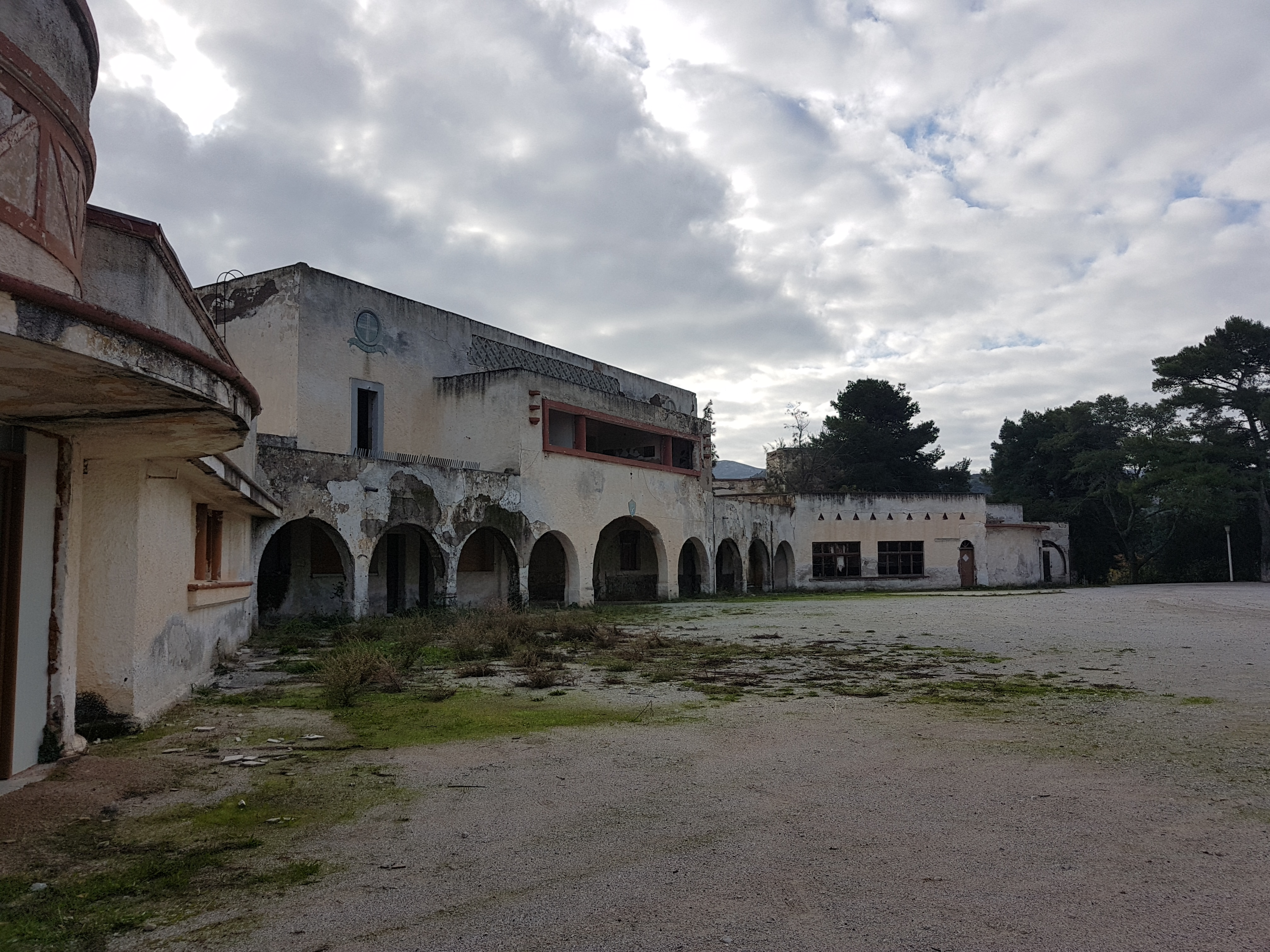 Historic administrative center of the Italian occupying power from 1936 to 1943 in Linopotis on the Greek island of Kos.